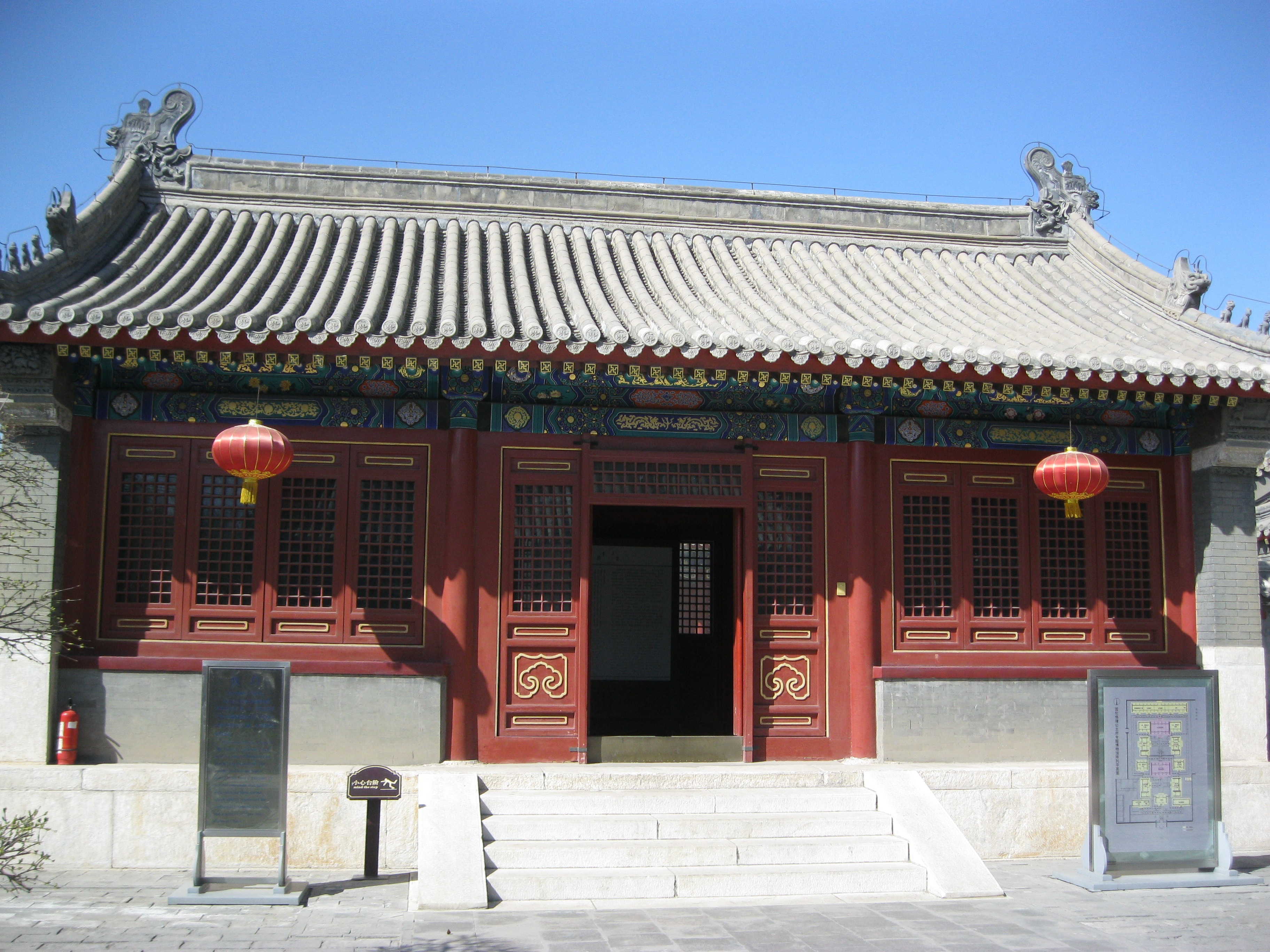 Gulun Jingge Princess's house, Jinyi Hall